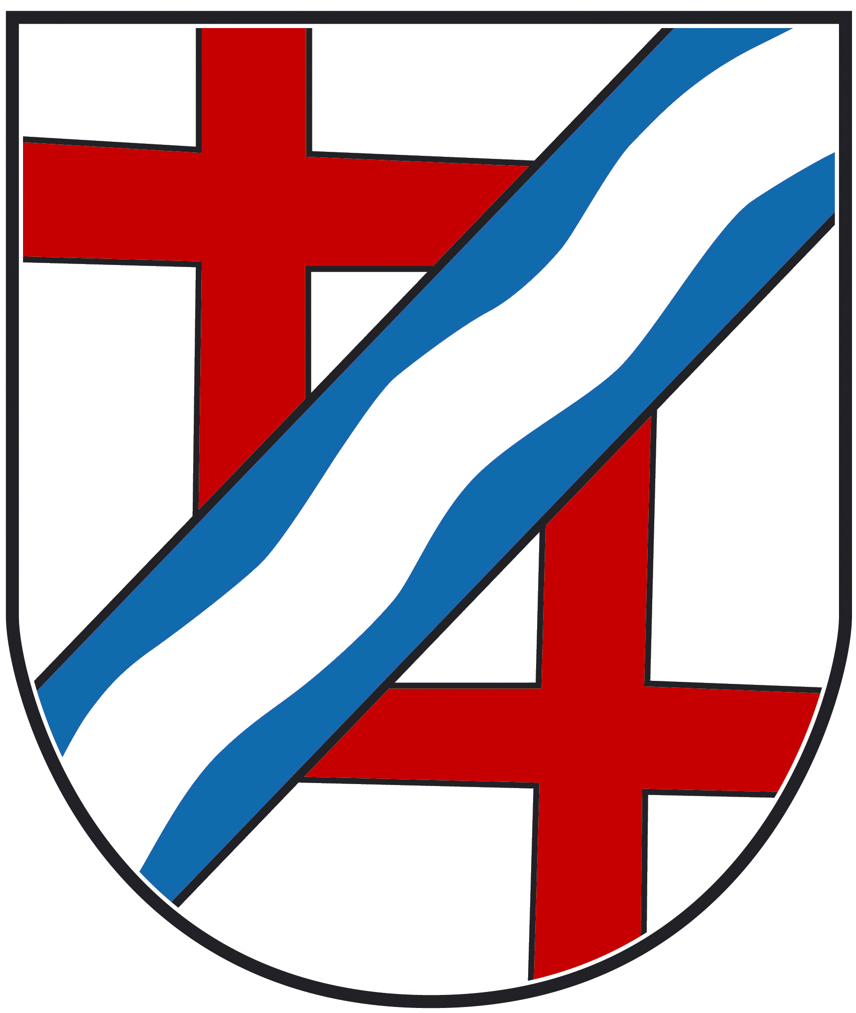 Coat of arms of Mannebach